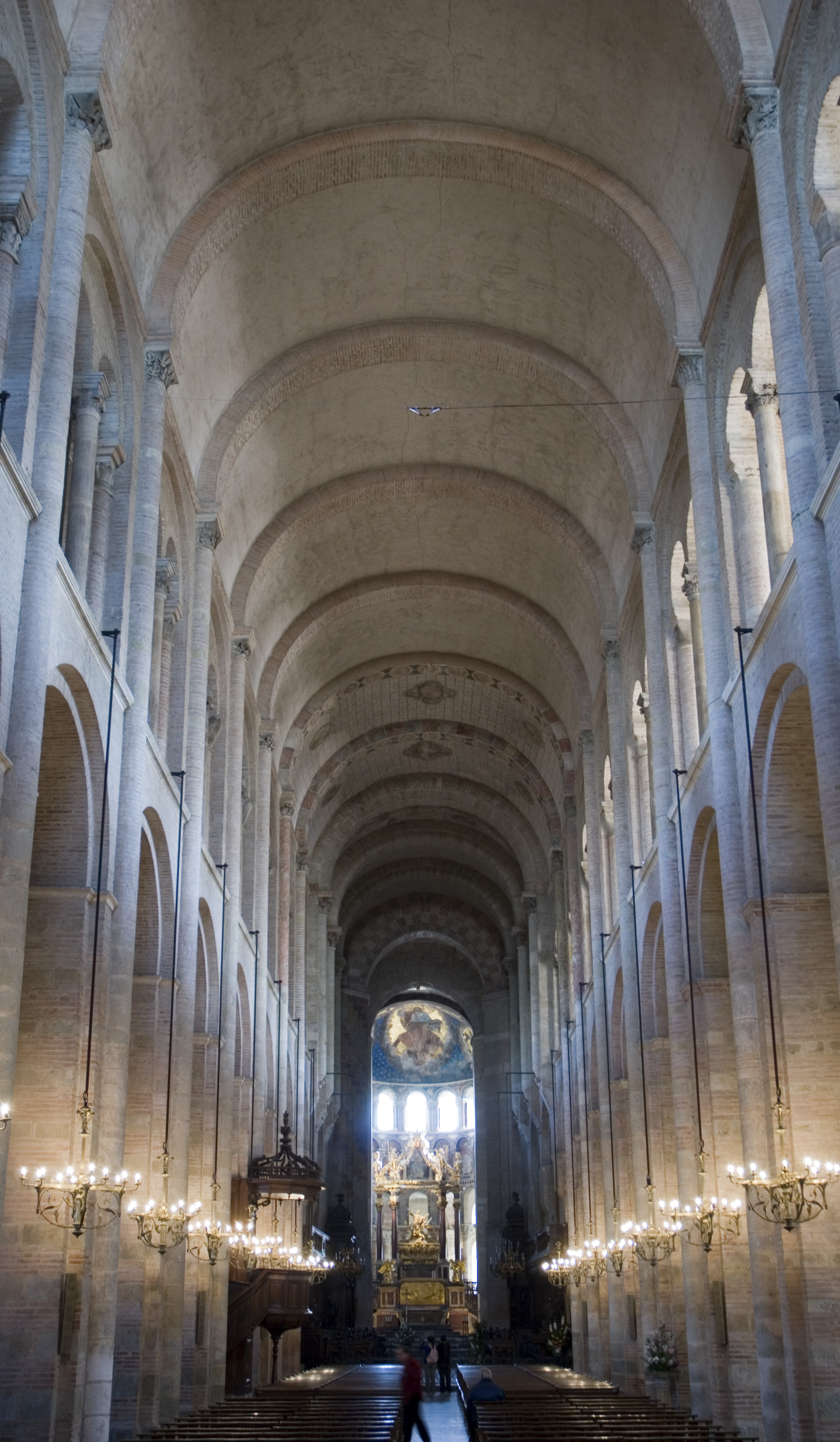 Roman nave of basilique Saint-Sernin (Toulouse, France)